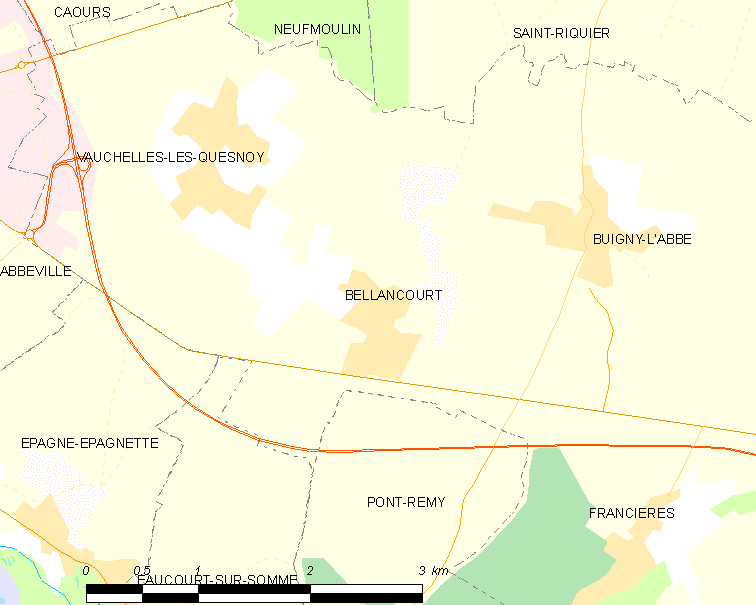 Map of French municipality Bellancourt